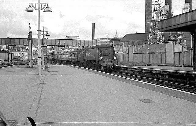 Southampton Central Station Looking eastwards from the station in the 'up' direction, a train for the Bournemouth line approaching. The locomotive headcode shows this to be a train which has come from the GWR Oxford line, destined for Bournemouth West - the equivalent of today's "Cross Country" service. The locomotive is an ex-Southern Railway "West Country" class No. 34041 "Wilton". Built at Brighton in 1946, it was withdrawn in 1966 after less than 20 years in service. On the right is the old, long gone, coal fired power station which was supplied by a railway siding which crossed Western Esplanade Road.